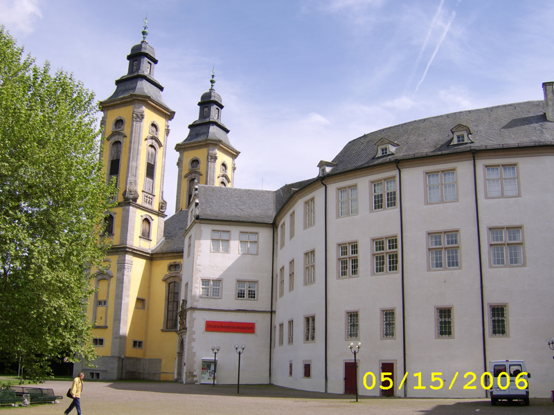 Interior photo of Deutschordenshloss in Bad Mergentheim, Germany. View from inside castle gate looking towards Deutschordensmuseum and Schlosskirche.